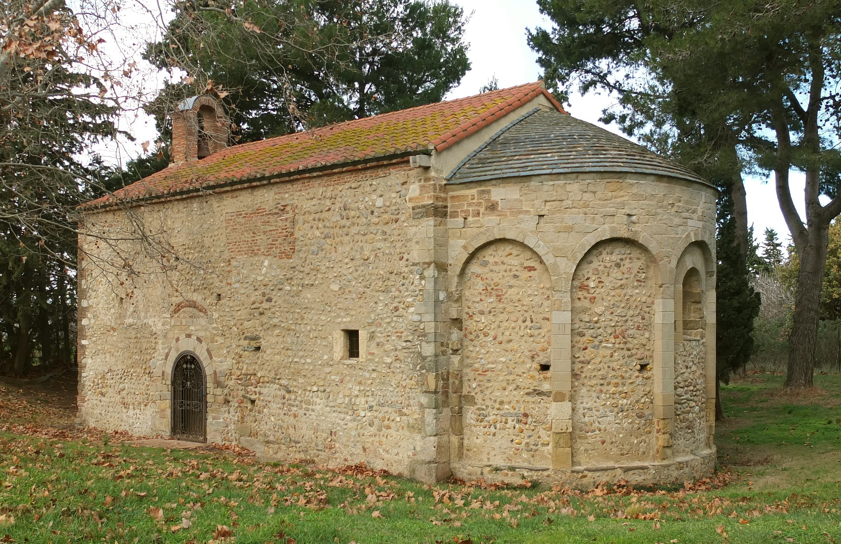 Église Saint-Étienne de Vilarasa (12th century), Saint-Cyprien (Pyrénées-Orientales), France (view SW)